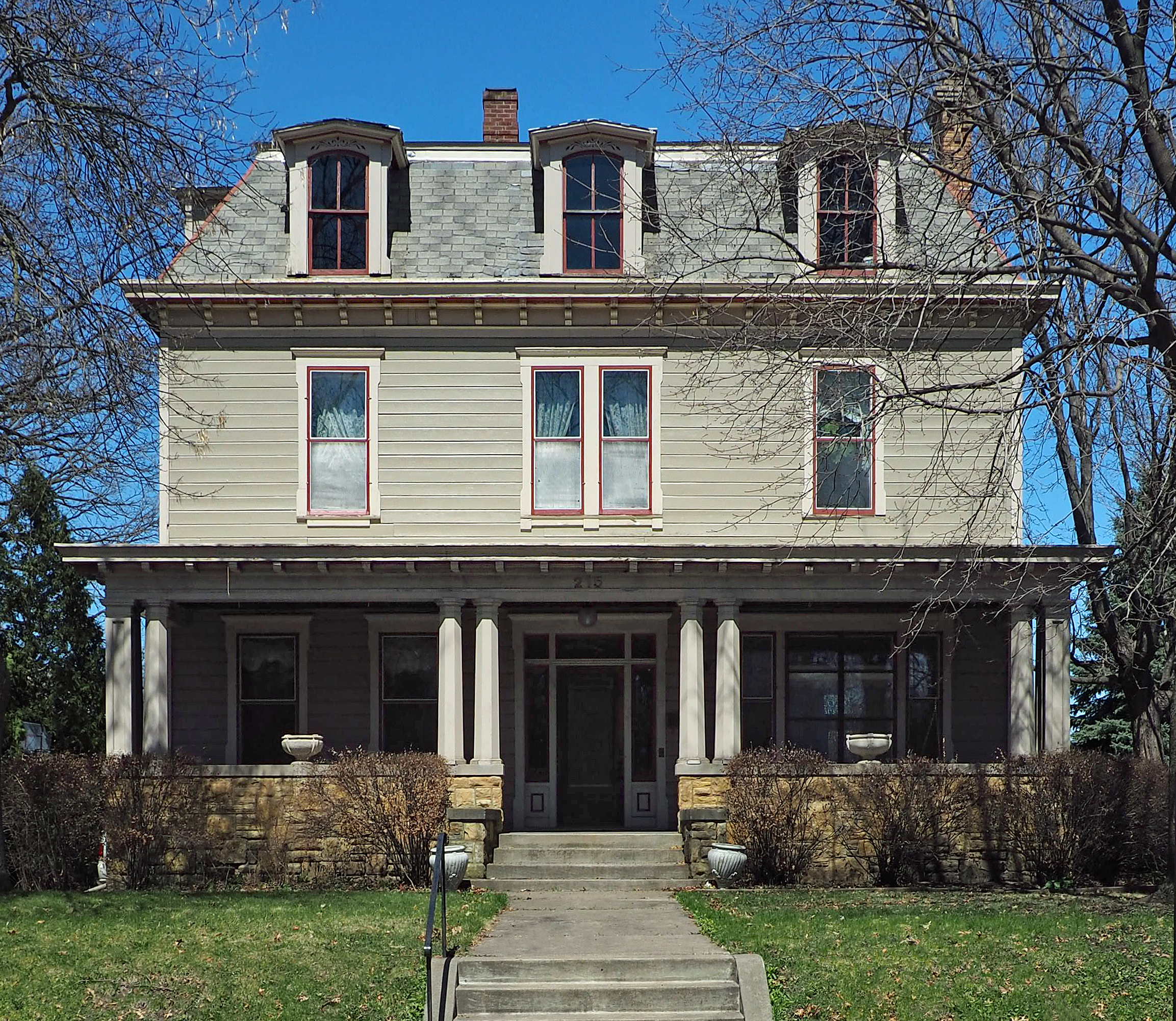 Anthony Yoerg, Sr. House, 215 Isabel St W, Saint Paul, Minnesota, USA. Viewed from the south.